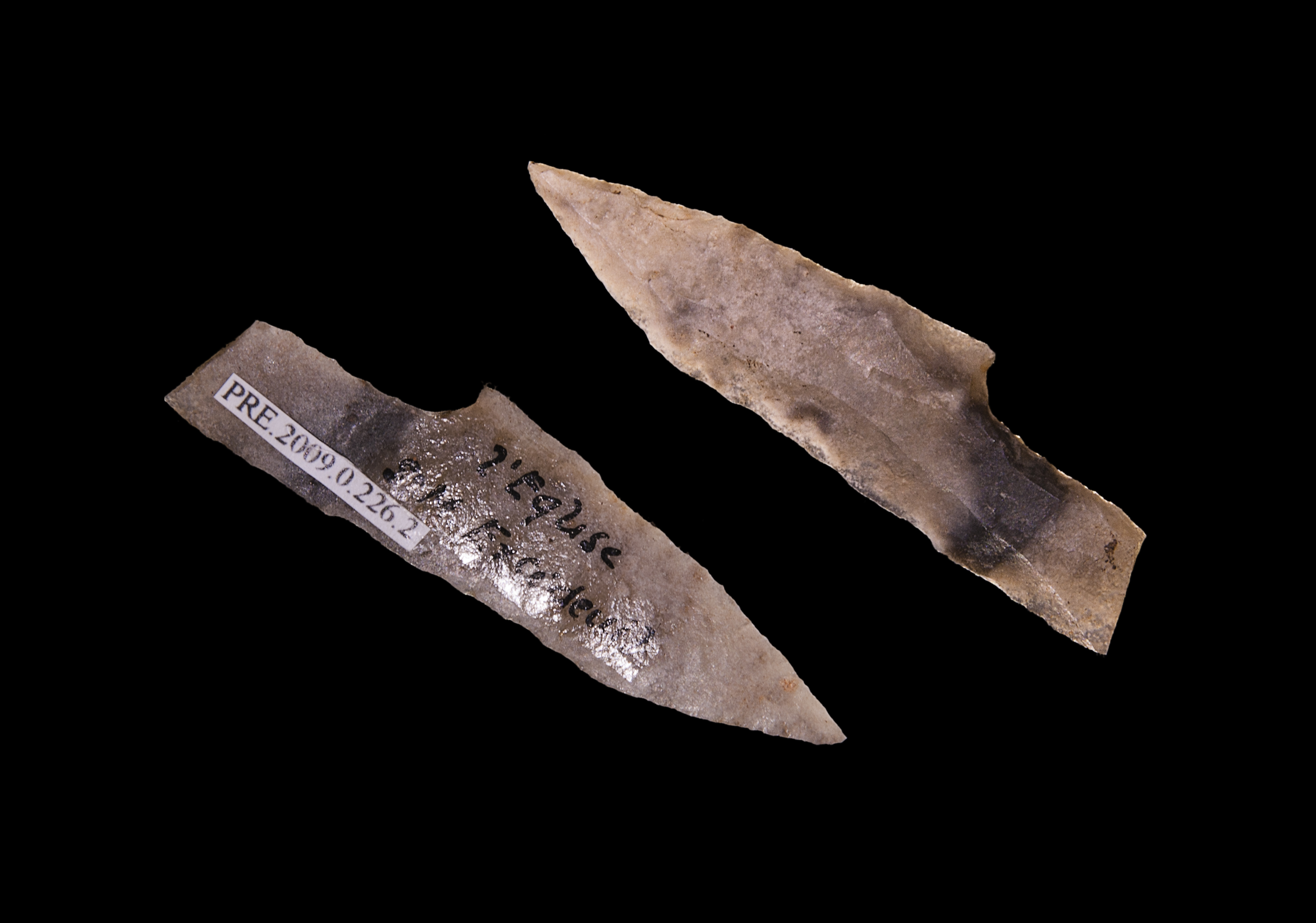 Side notched point - Different views of the same specimen.